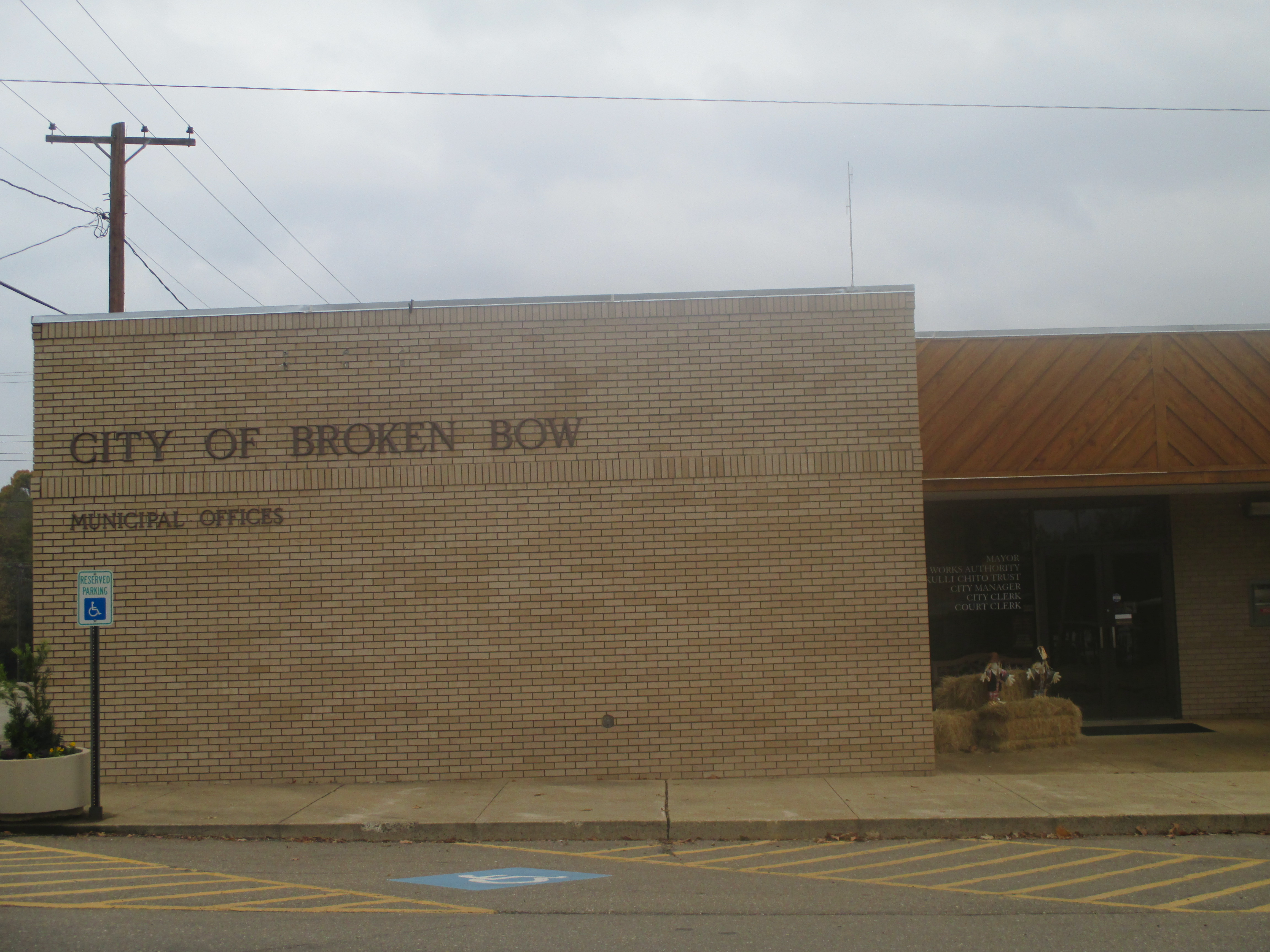 I took photo with Canon camera of Broken Bow, OK, Municipal Building.